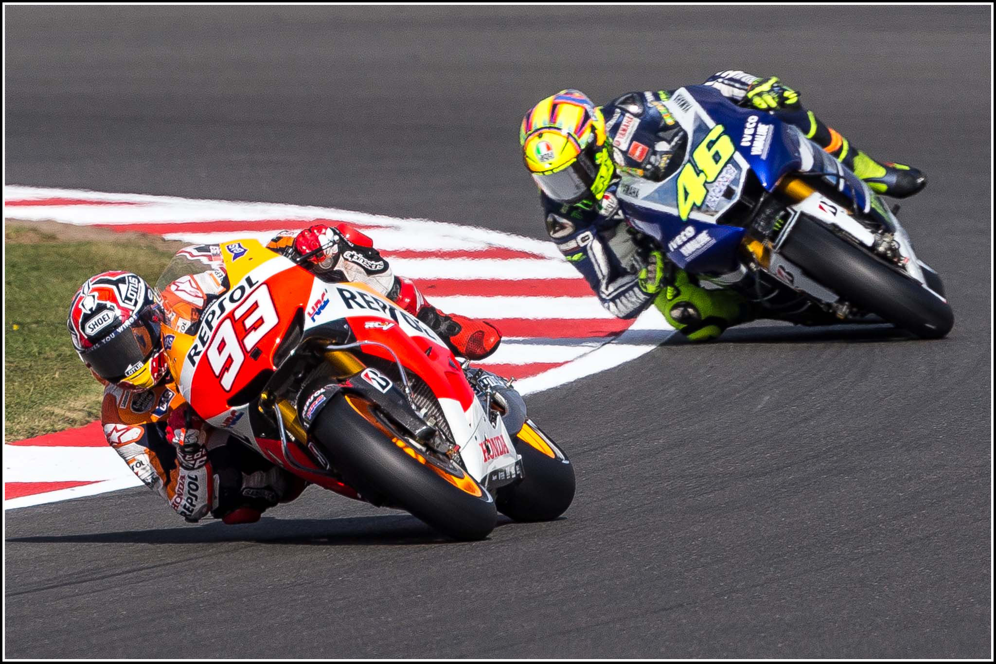 Marc Marquez #93 leading Valentino Rossi #46. MotoGP Practice Silverstone 31st August 2013.